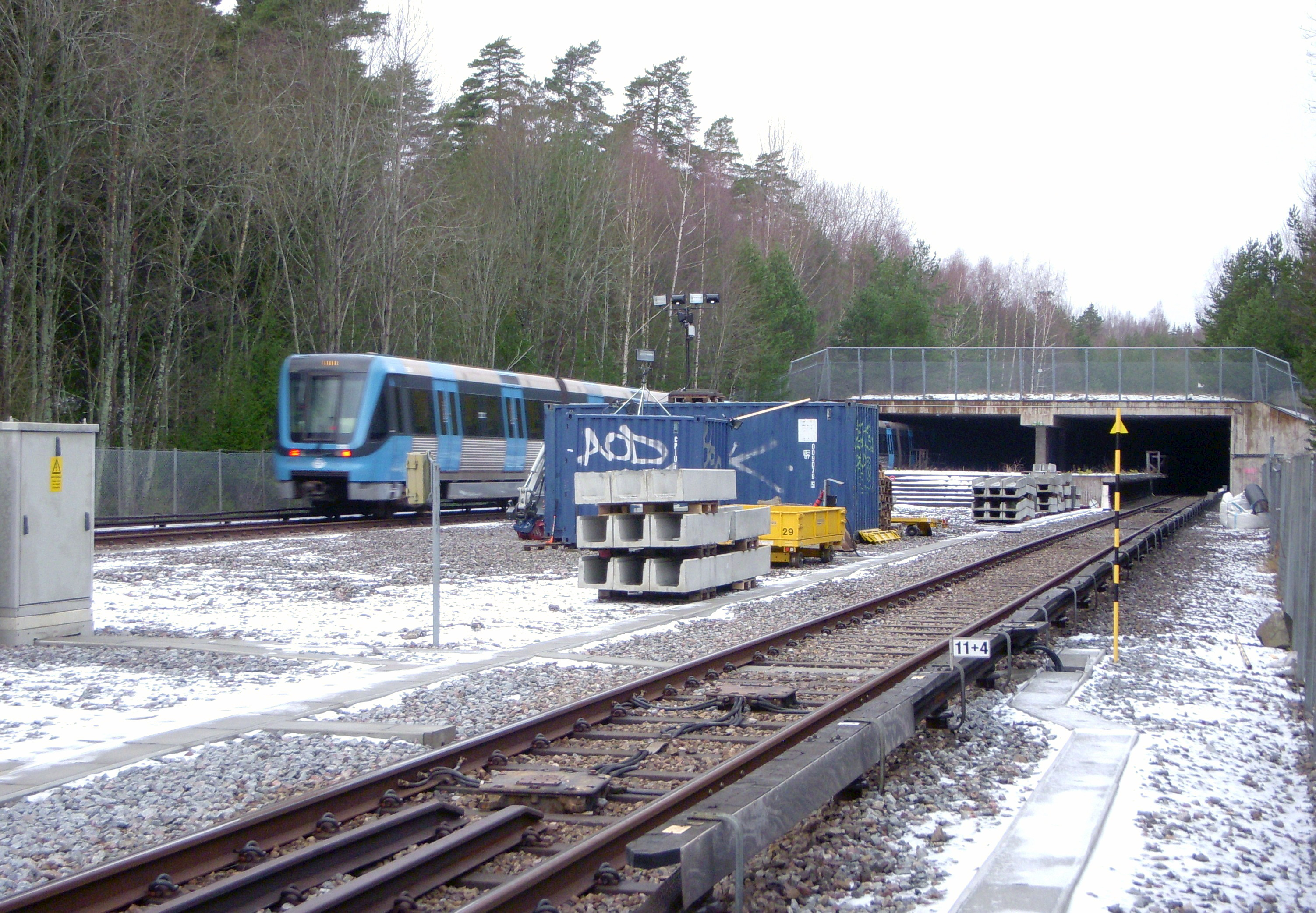 The unfinished Stockholm metro station Kymlinge.